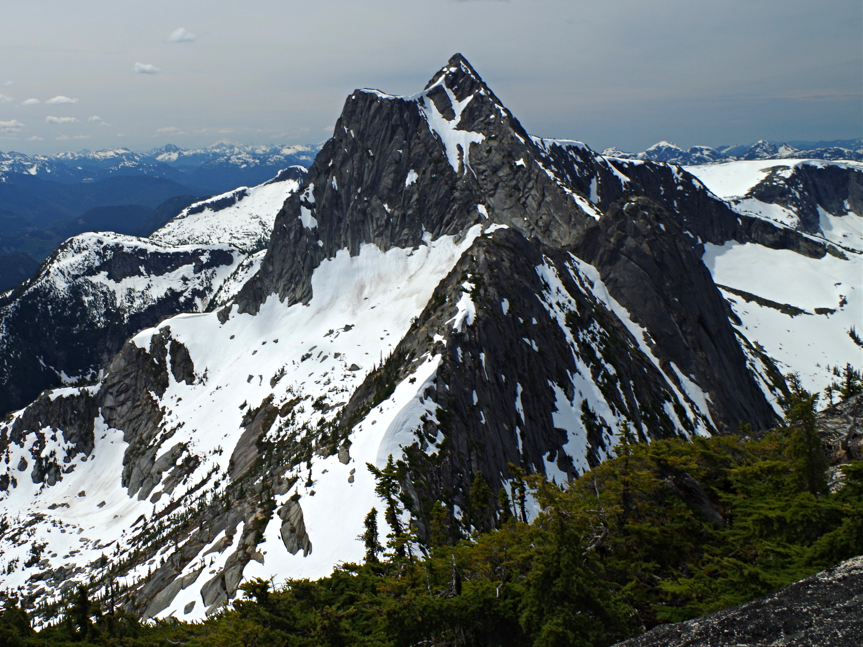 Needle Peak in BC near Coquihalla Summit